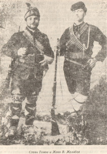 The IMARO revolutionists Stoyan Tomov and Zheko Dzhelebov around 1902 by unknoun author.